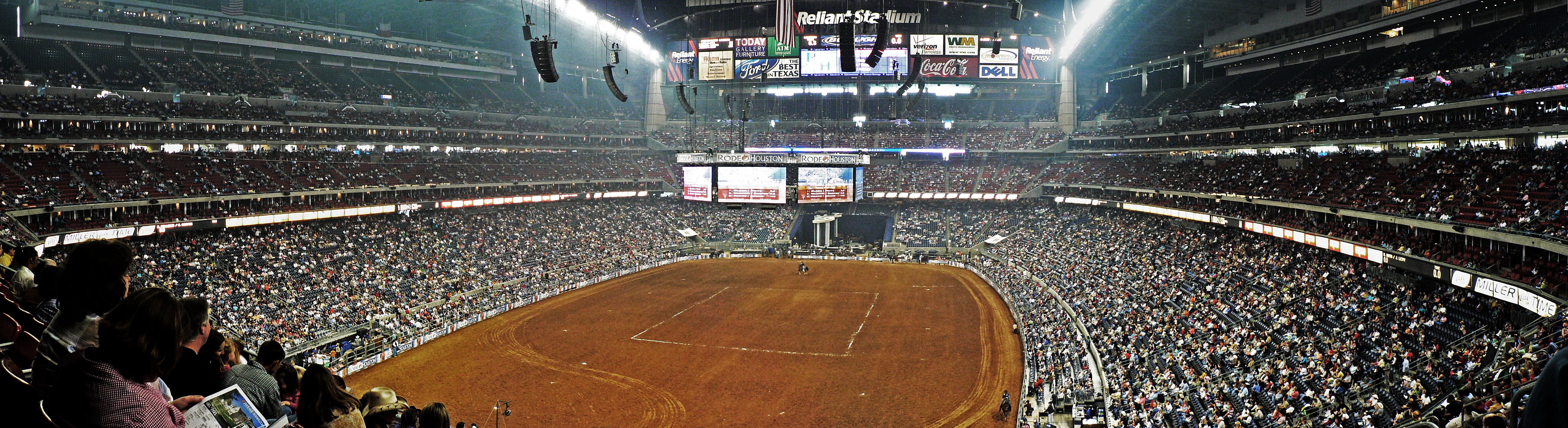 This is a composite of 5 to 7 pictures that I took with a Panasonic FZ5. They were stitched using ArcSoft Panorama Maker 3.5.0.98, post-processing with The GIMP 2.2.8. Photos taken from section 322, row Q, seats 5-6, on 2006-03-04 15:45. At the far side of the shot, you can make out the rotating stage that is brought to the center of the stadium for the concert.